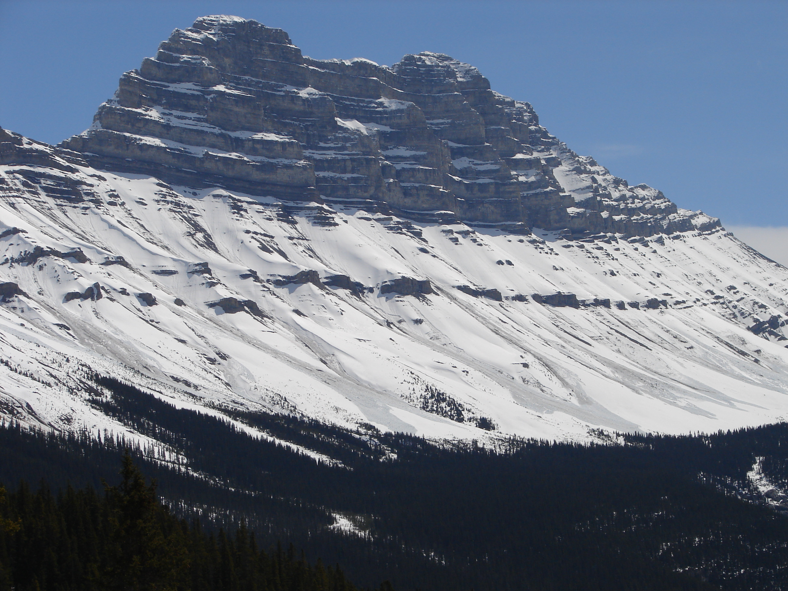 Mountain Ridge, Icefields Parkway